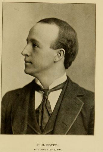 P. M. Estes, Nashville-based lawyer